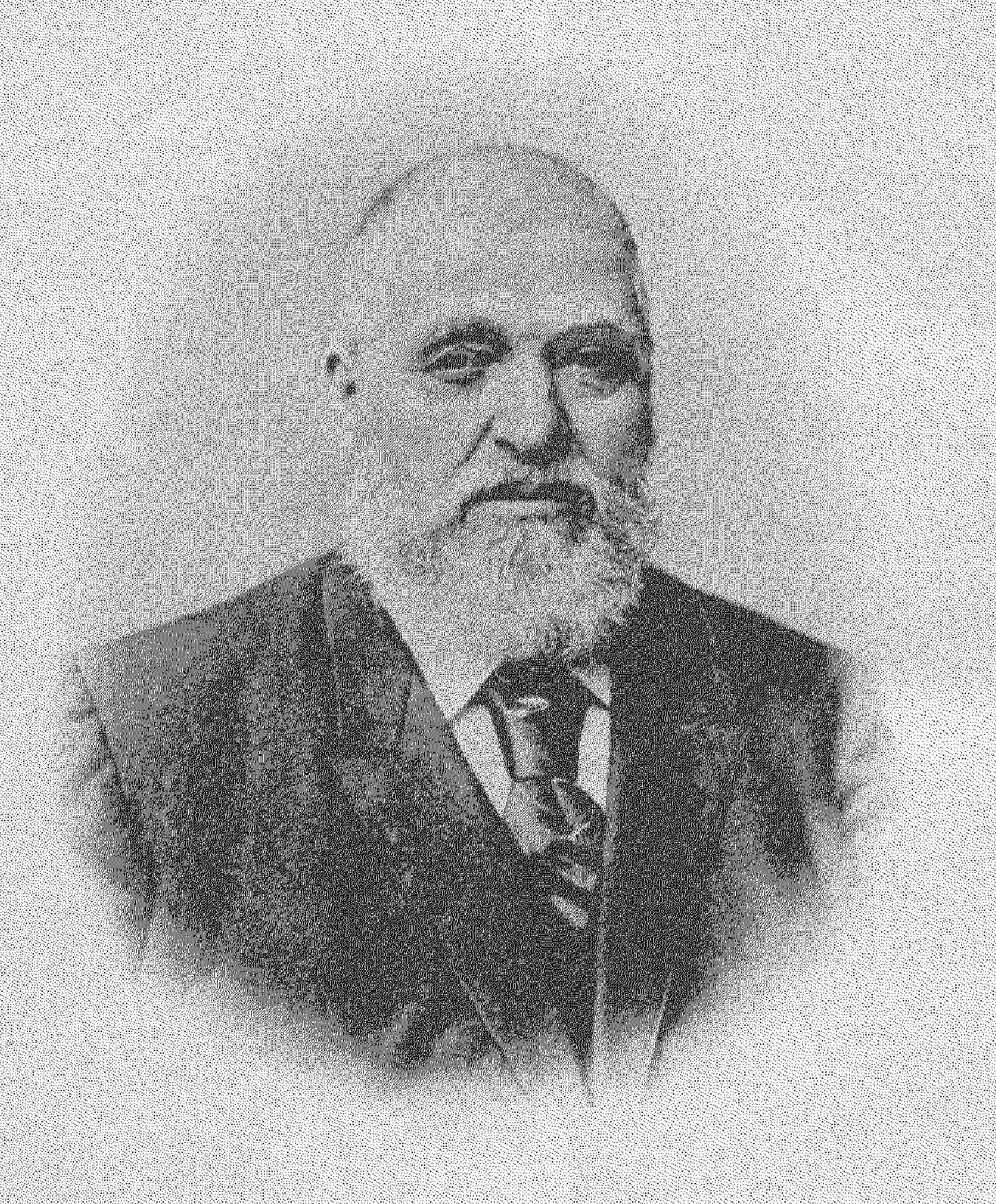 Kalonymos Wissotzky from the book Mofet LaRabim